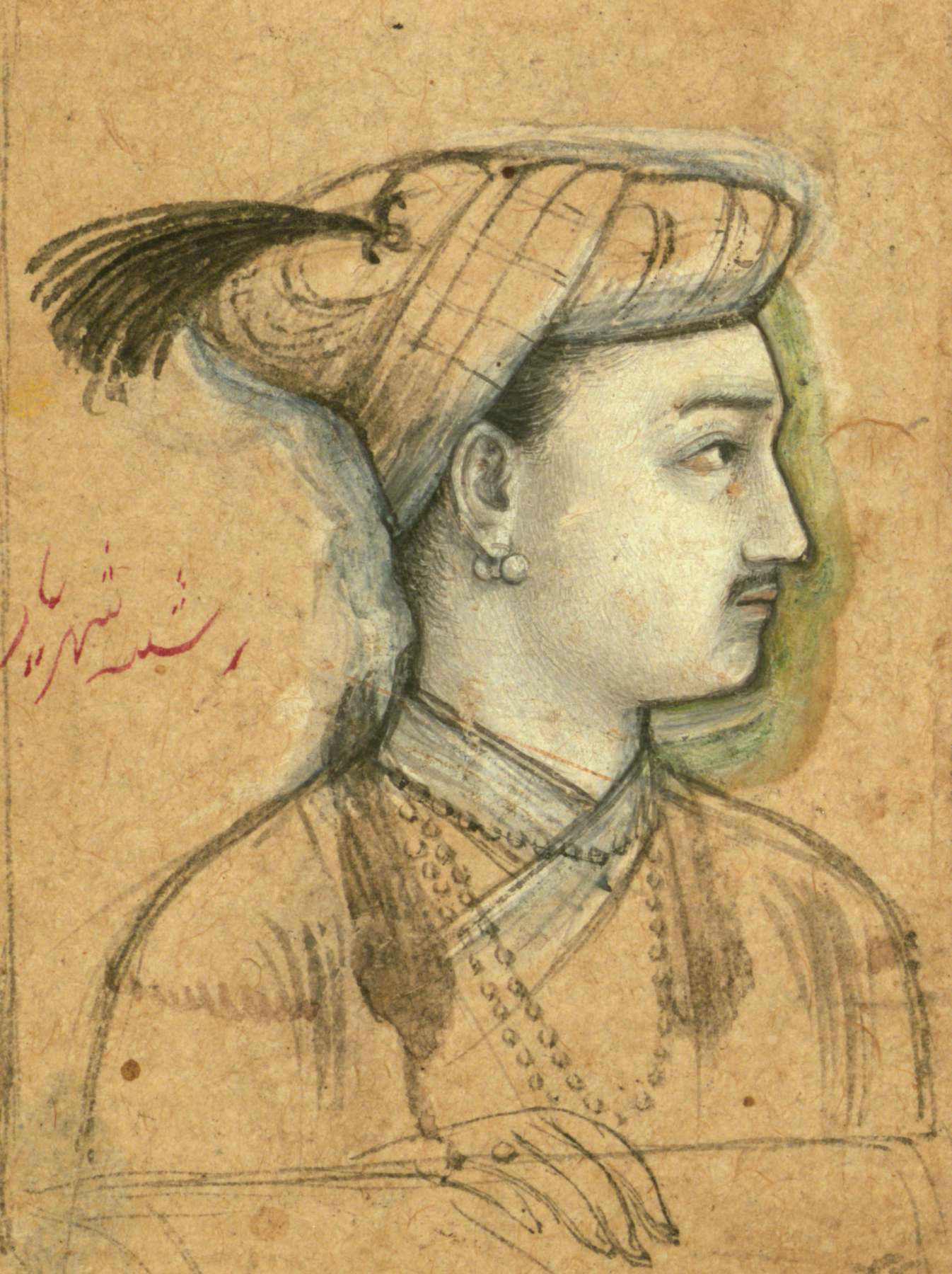 Shahriyar ink and pigments on paper 5.3 x 4.2 cm. This Mughal drawing, Walters manuscript leaf W.697 is of a young man, identified by the inscription as Shahriyar, who was the youngest son of the 4th Mughal Emperor Jahangir (died 1037 AH/AD 1627). It dates to the 11th century AH/AD 17th. Shahriyar is shown in profile position, which is common in Mughal painting, especially in depictions of court ceremonies. The portrait is a preparatory drawing for a manuscript painting. It may have been at a later stage that the window frame and hand were drawn to suggest a jharoka scene. The buff-tinted and gold-sprinkled border is attributable to the12th century AH/AD 18th. The portrait is inscribed shabih-i Shariyar in red Nasta'liq script.